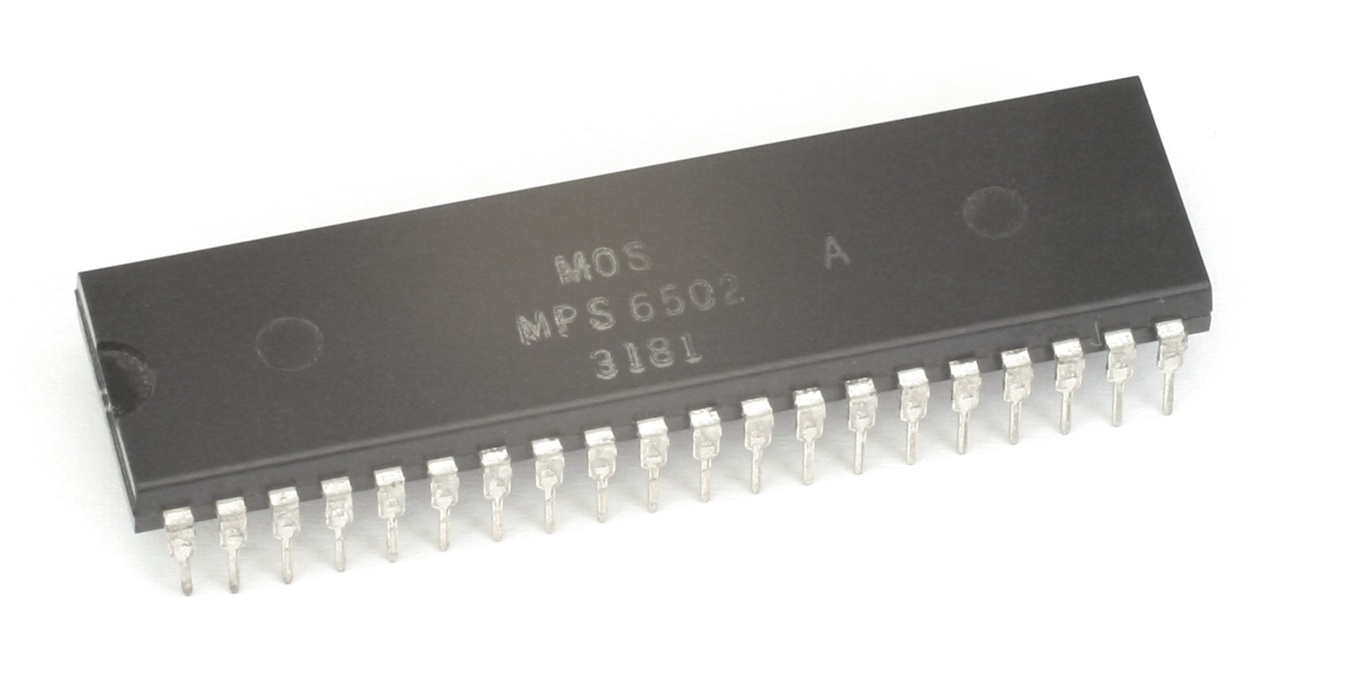 CPU MOS 6502